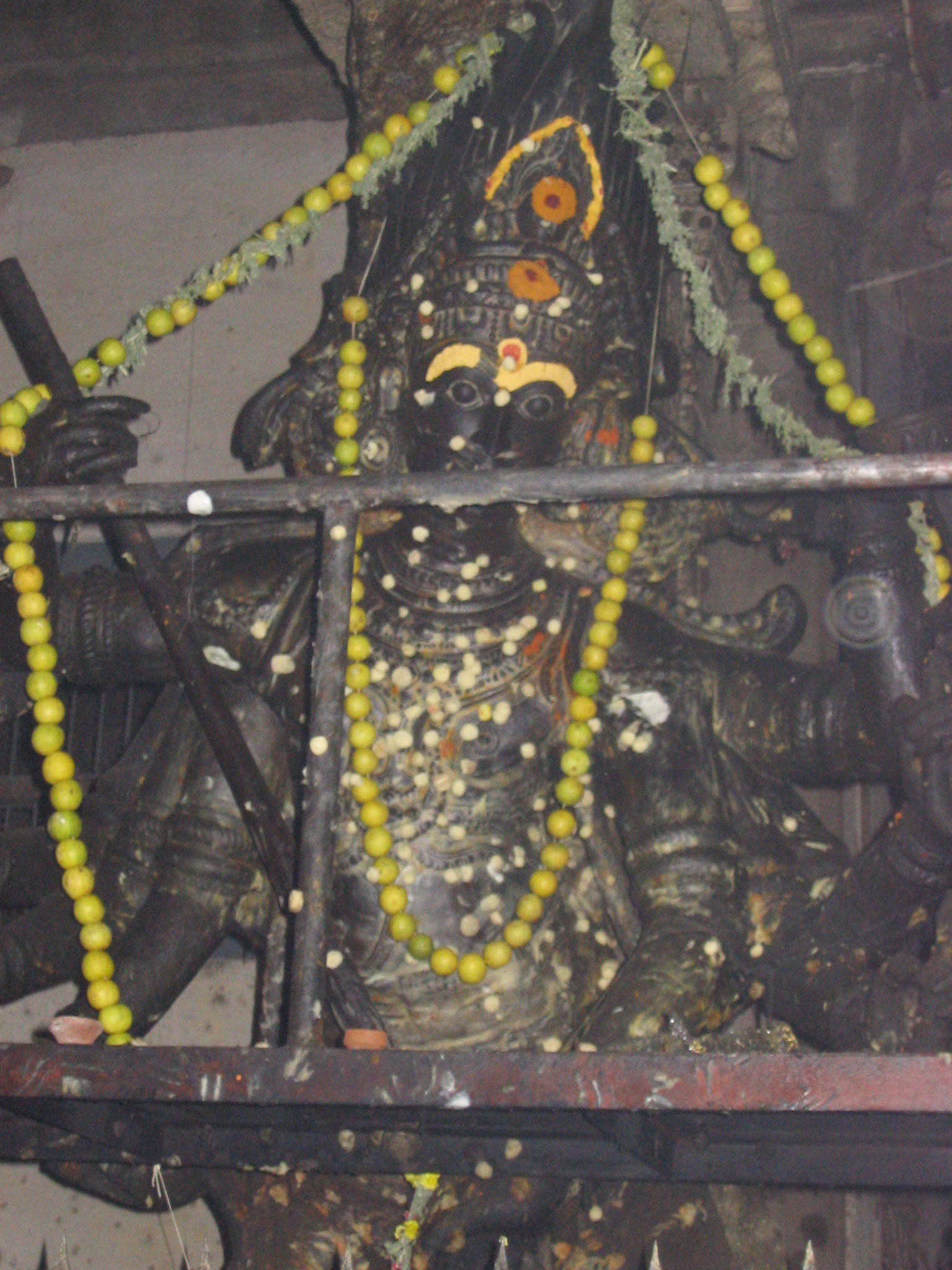 Shree Meenakshi-Sundareswar Temple, Madurai, Tamilnadu India